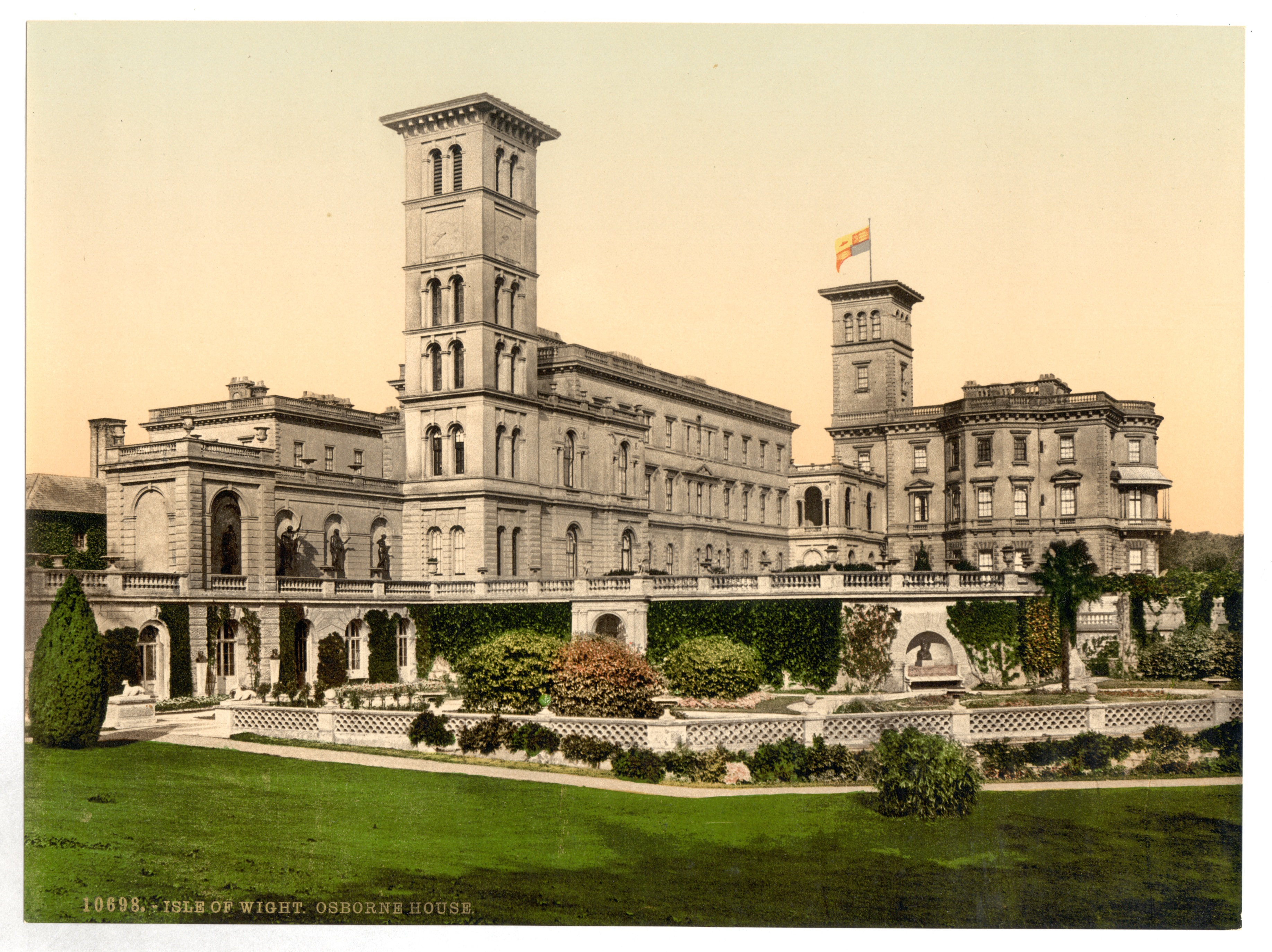 Print no. "10698".; Title from the Detroit Publishing Co., Catalogue J-foreign section, Detroit, Mich. : Detroit Publishing Company, 1905.; Forms part of: Views of England in the Photochrom print collection.